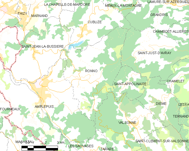 Map of French municipality